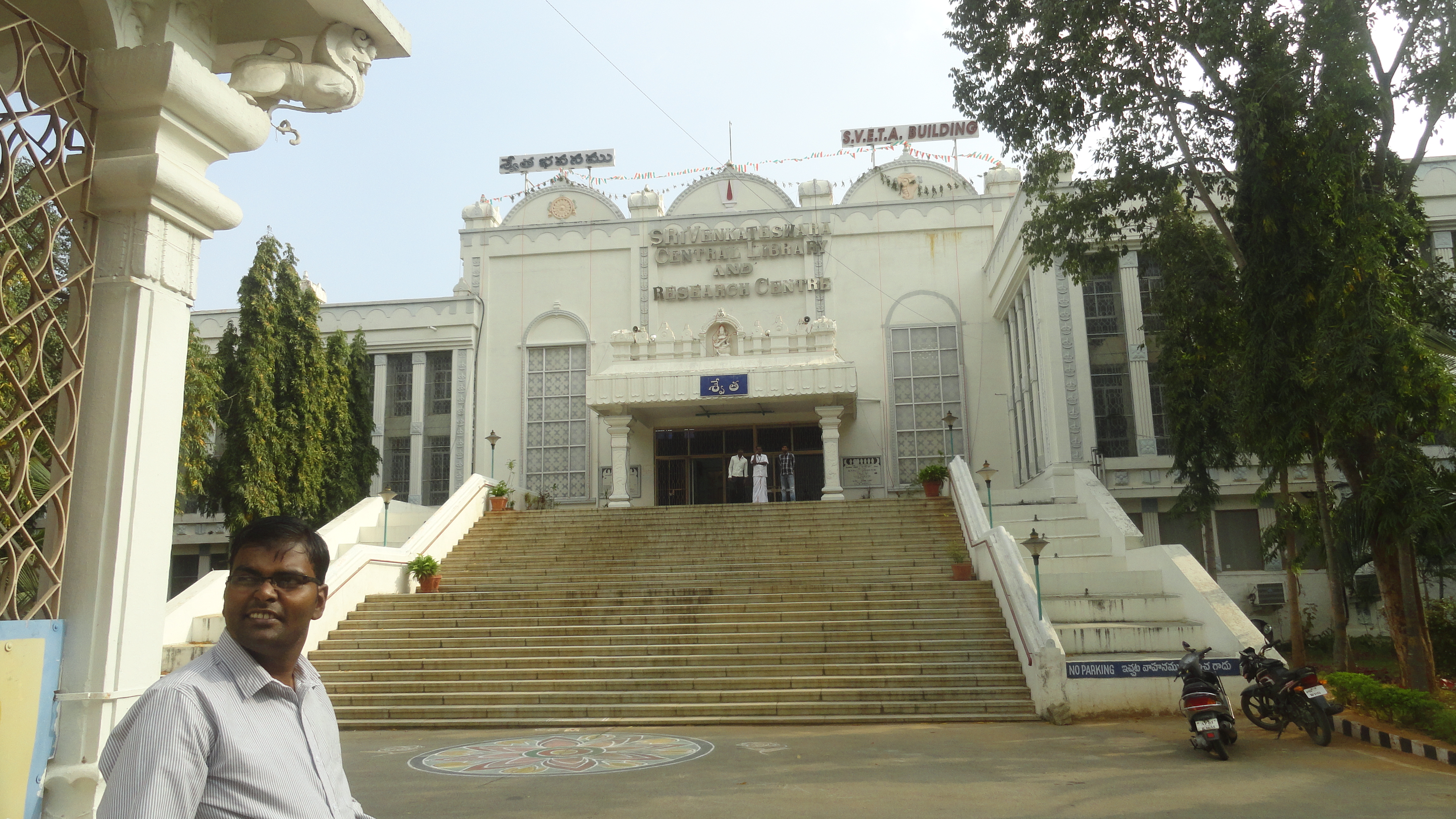 SWETA building. library